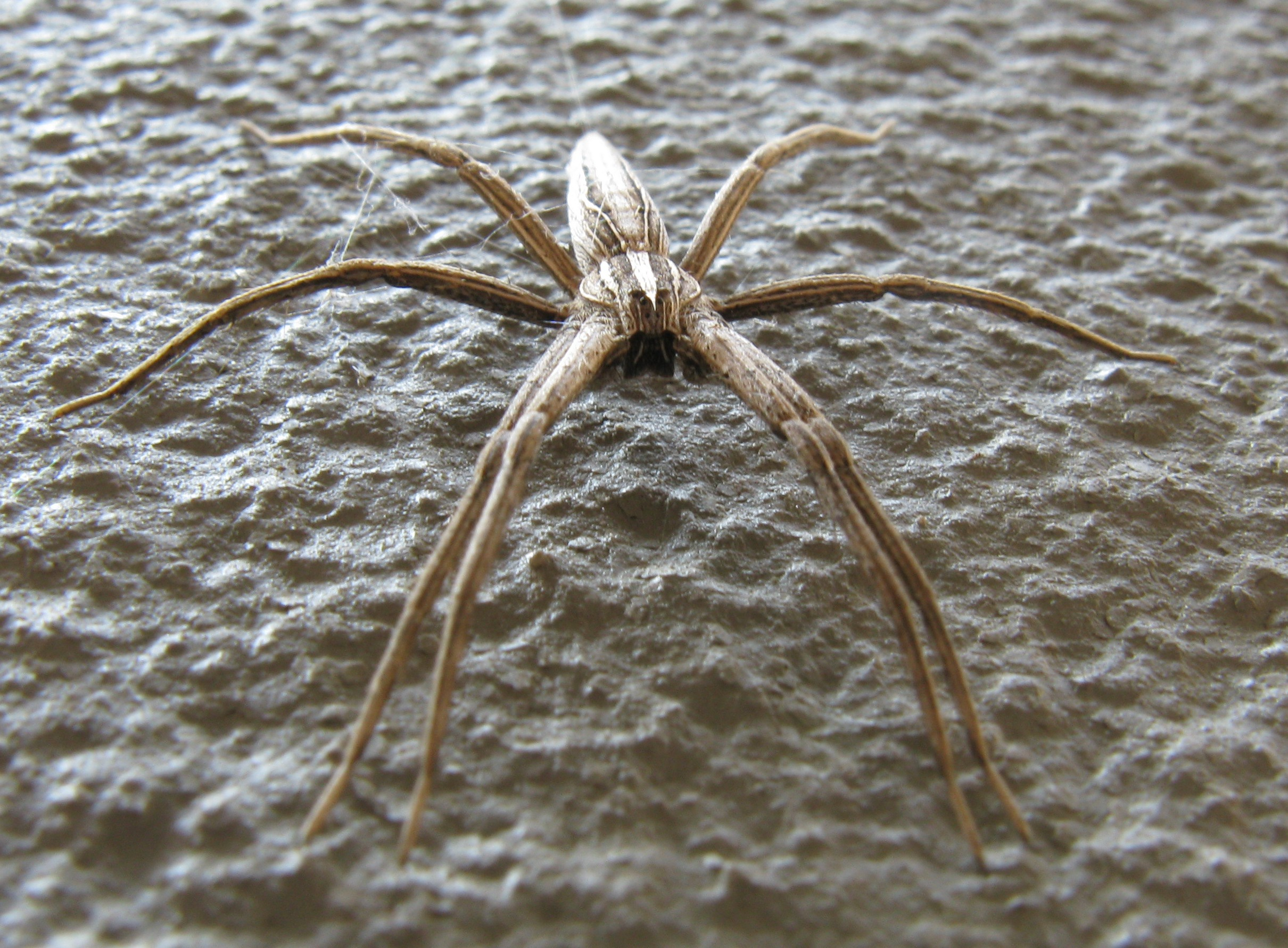 Pisauridae, Chiasmopes lineatus, seen on wall at Maropeng near Sterkfontein